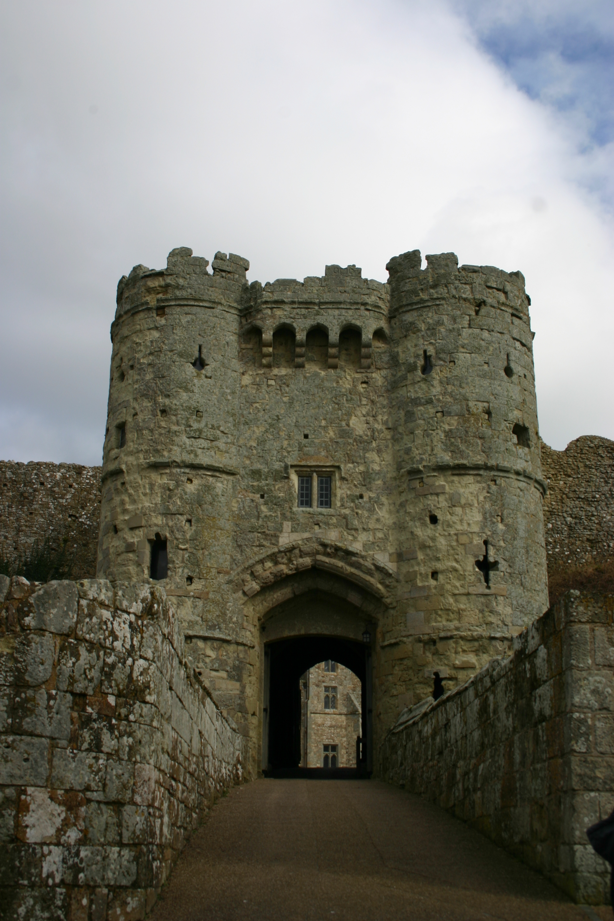 Carisbrooke Castle gate, Isle of Wight, UK.